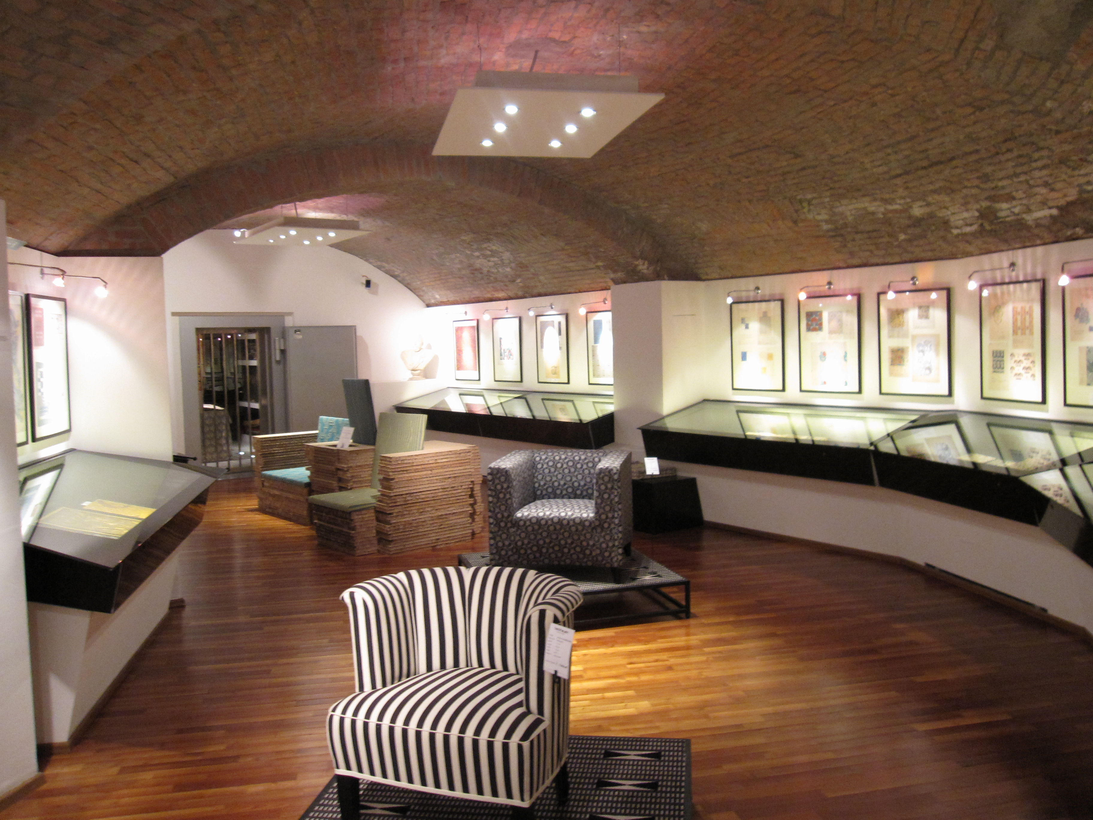 Wiener Werkstätte Museum in the basement of Backhausen company in Vienna.